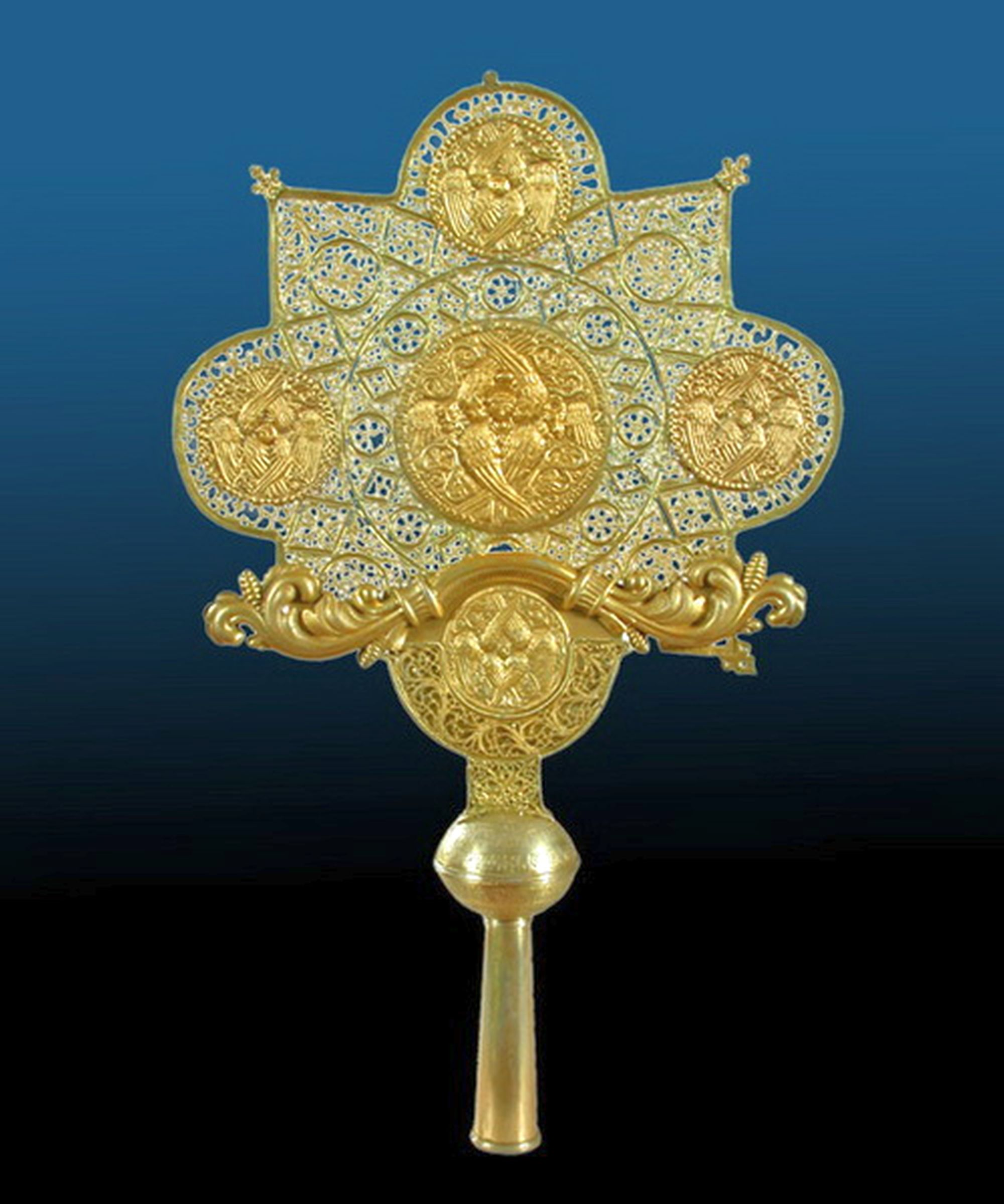 Religious object from the Putna Monastery, Romania